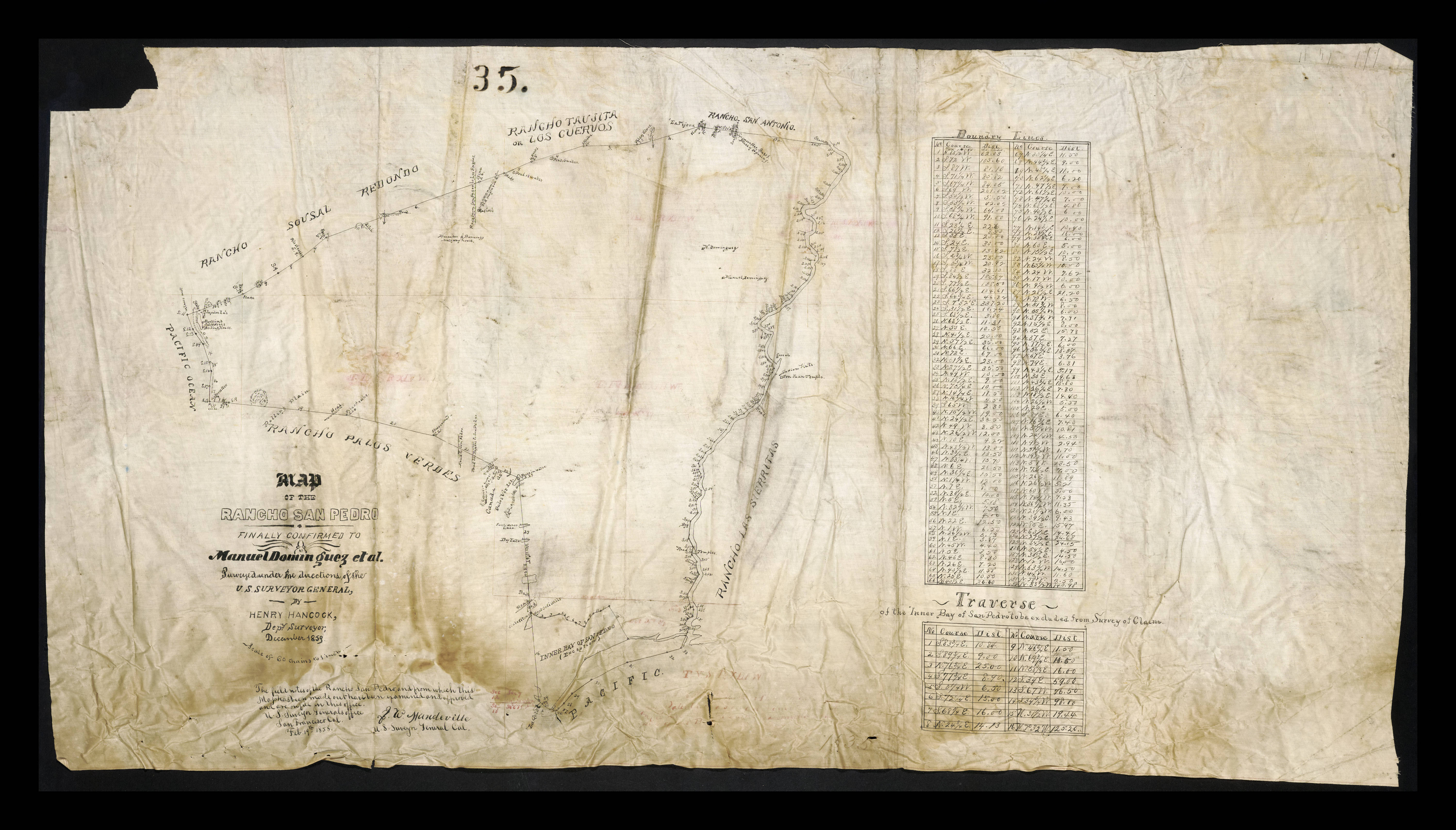 Map of the Rancho San Pedro finally confirmed to Manuel Dominguez et al., December 1859 Hand drawn map on linen by deputy surveyor Henry Hancock showing the course of San Gabriel River from Pacific Ocean and Inner Bay of San Pedro, Rancho Sausal Redondo, Rancho Taujita or Los Cuervos, Rancho San Antonio, Rancho Palos Verdes, and Rancho Las Sierritas. Also shows a table of boundry lines and a table of traverse of the Inner Bay of San Pedro to be excluded from survey of claims. Map number 35. Note: Henry Hancock was a prominent Los Angeles lawyer and surveyor. He worked as Los Angeles City Surveyor and United States Deputy Surveyor in the 1850s. Hancock surveyed most of the large ranches between Monterey and San Diego in California. Physical Description: 1 sheet; 18.5 x 33 in.